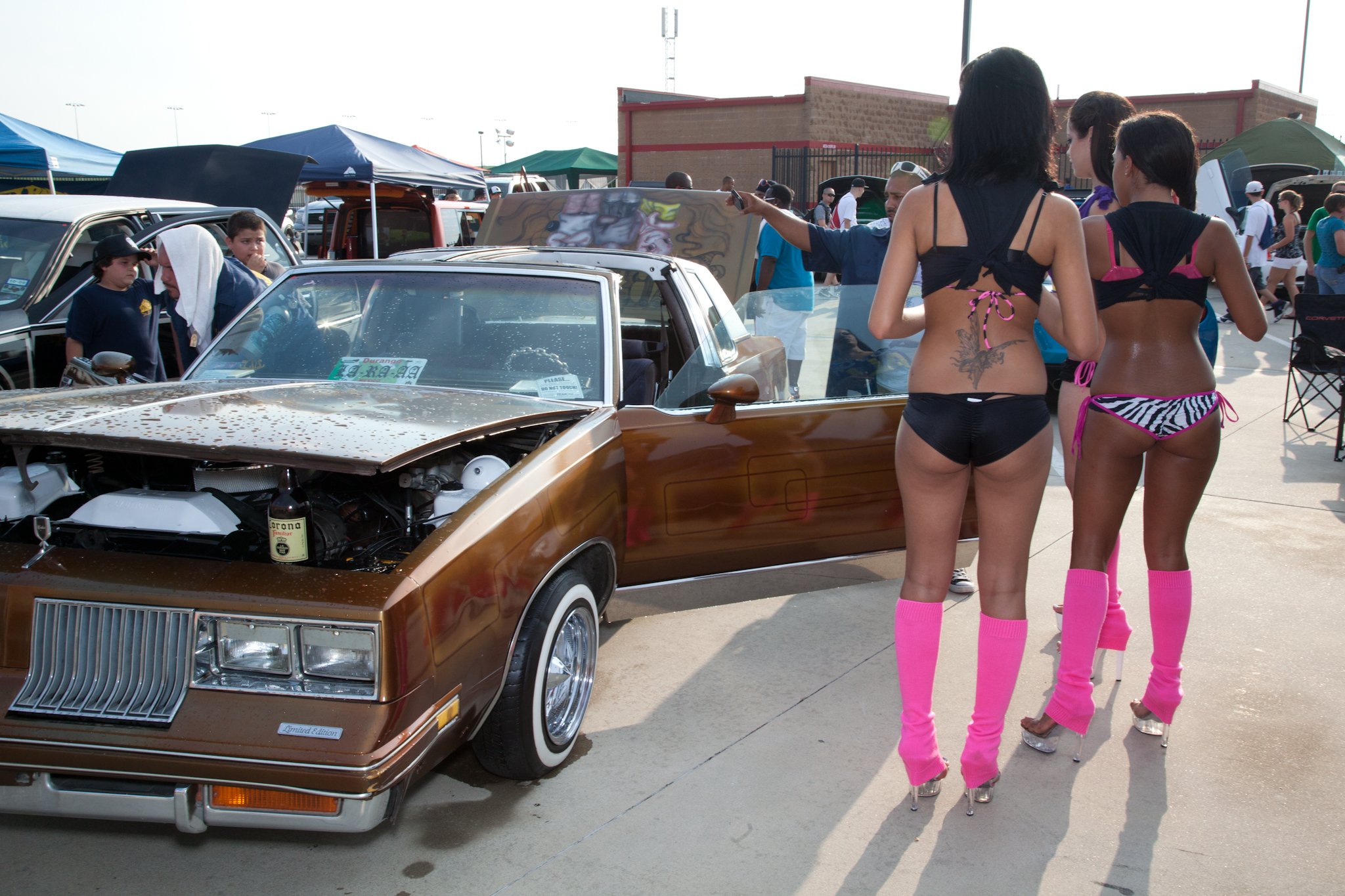 Hot Import Nights - NOPI at the Atlanta Motor Speedway in Atlanta, Georgia on Saturday, 31 July 2010.